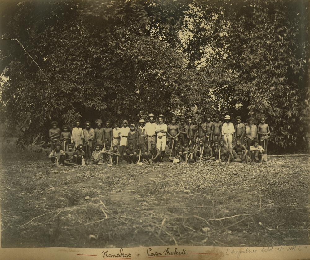 South Sea Islander workers on the Lower Herbert Unidentified kanaka workers on a property.